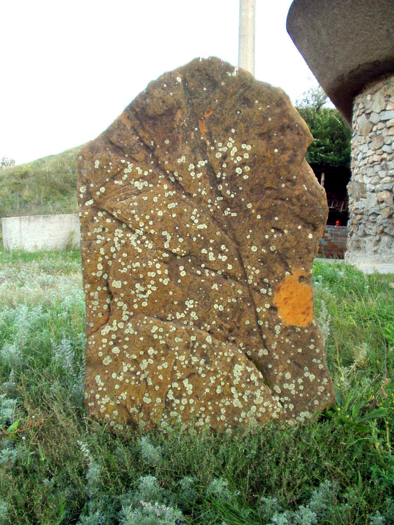 A boulder with petroglyphs, Kamenna Mohyla, Ukraine. Photo courtesy Petro Vlasenko